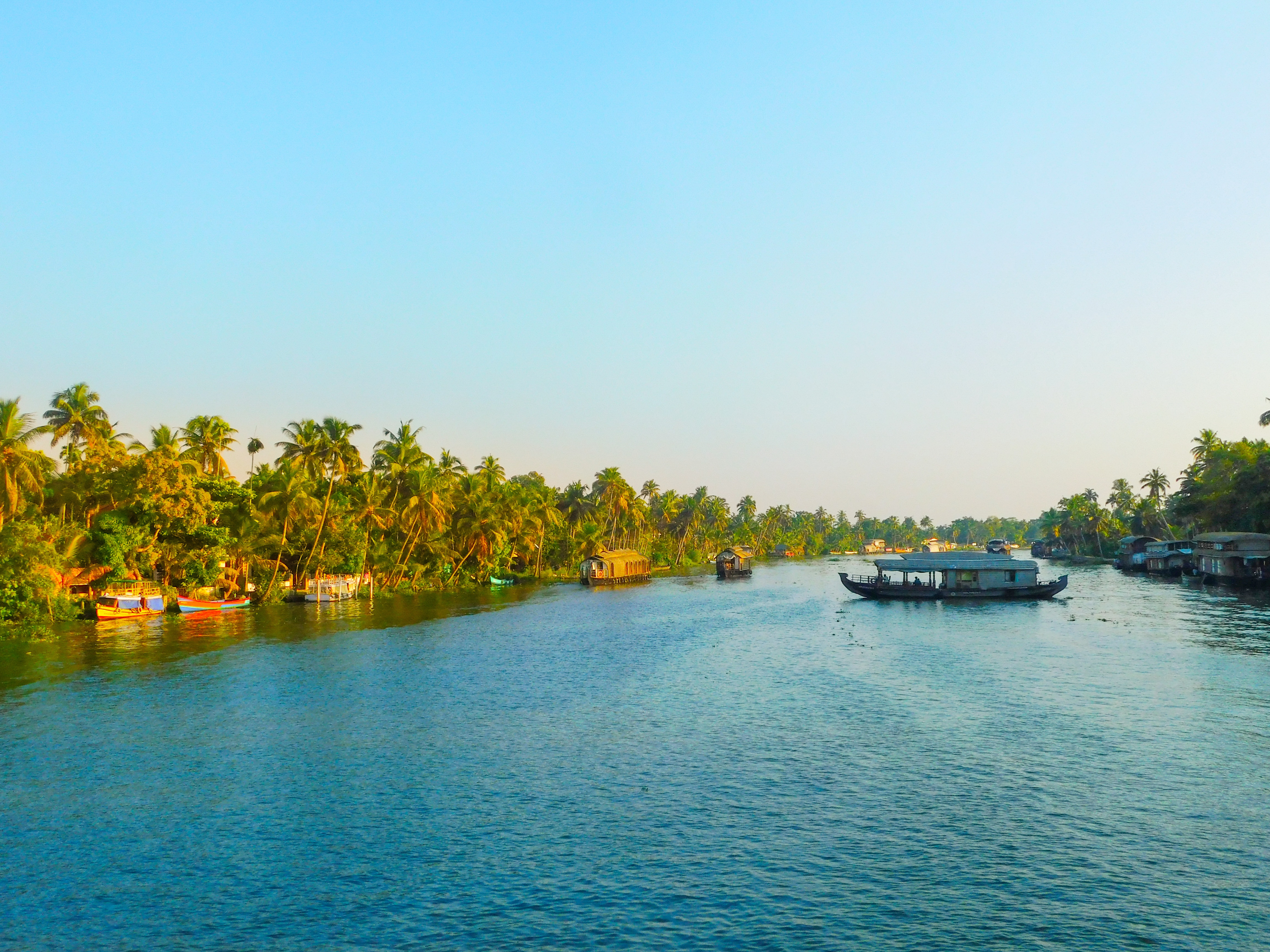 A houseboat in the backwaters of Kumarakom, Kerala